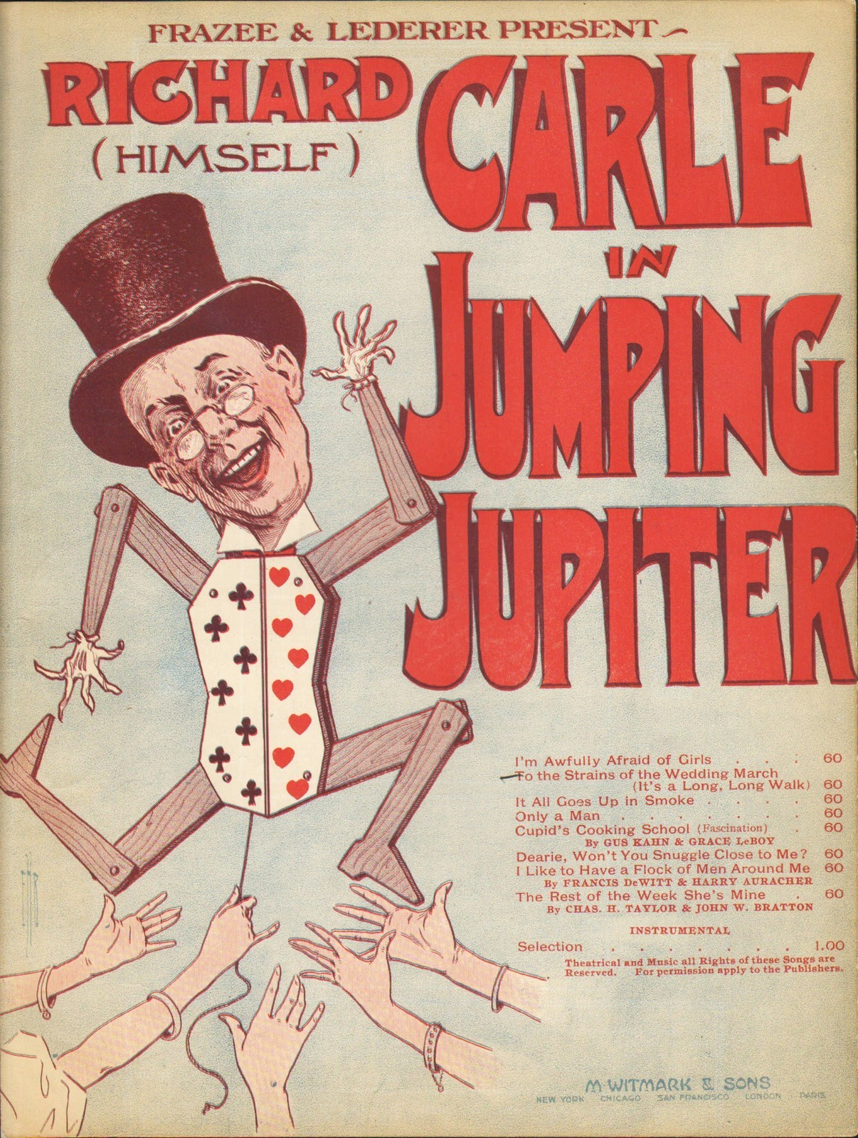 Richard Carle in Jumping Jupiter, Broadway - poster (cropped)